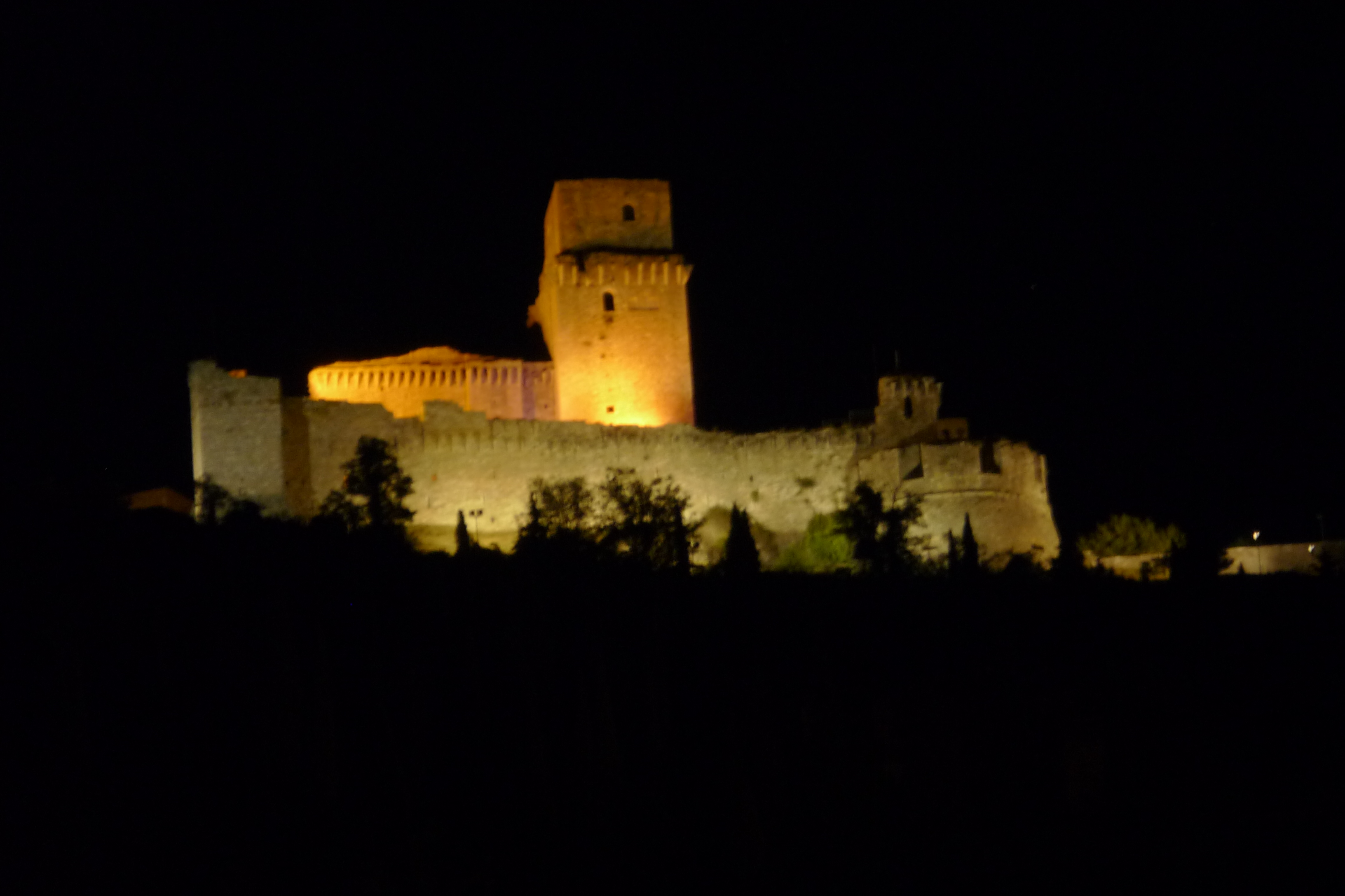 Night view of the Rocca Maggiore from which you can enjoy a wonderful panorama of Assisi (424 m) and the valley. News of the Rocca will have the twelfth century; was destroyed in 1198 and rebuilt in 1367.